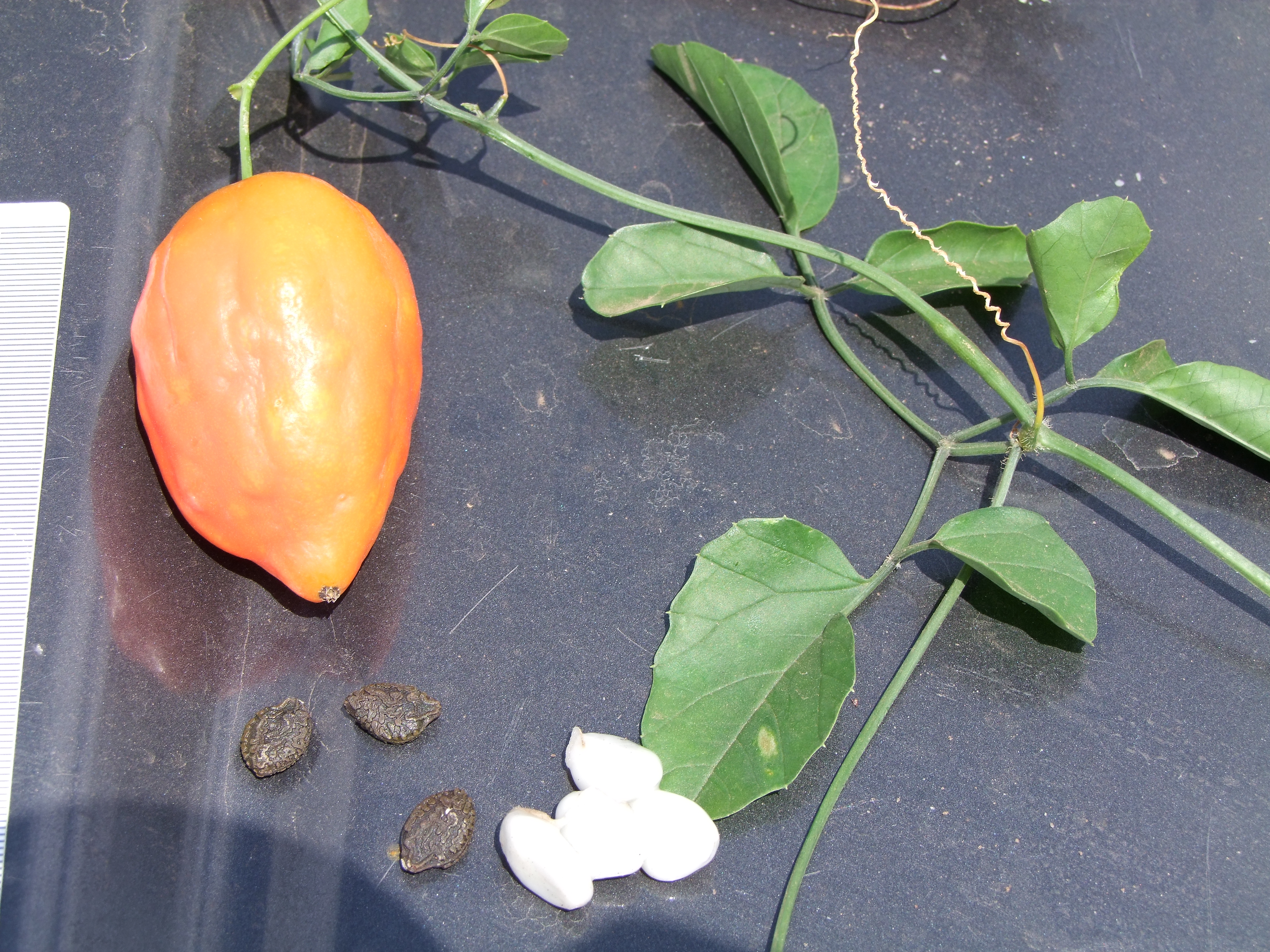 Momordica trifoliolata Hook. f. from upper left, clockwise: ripe fruit, leaf on stem, seeds in their white aril, blackish seeds taken between Ilonga Research Institute and Kilosa (Morogoro region), Tanzania '